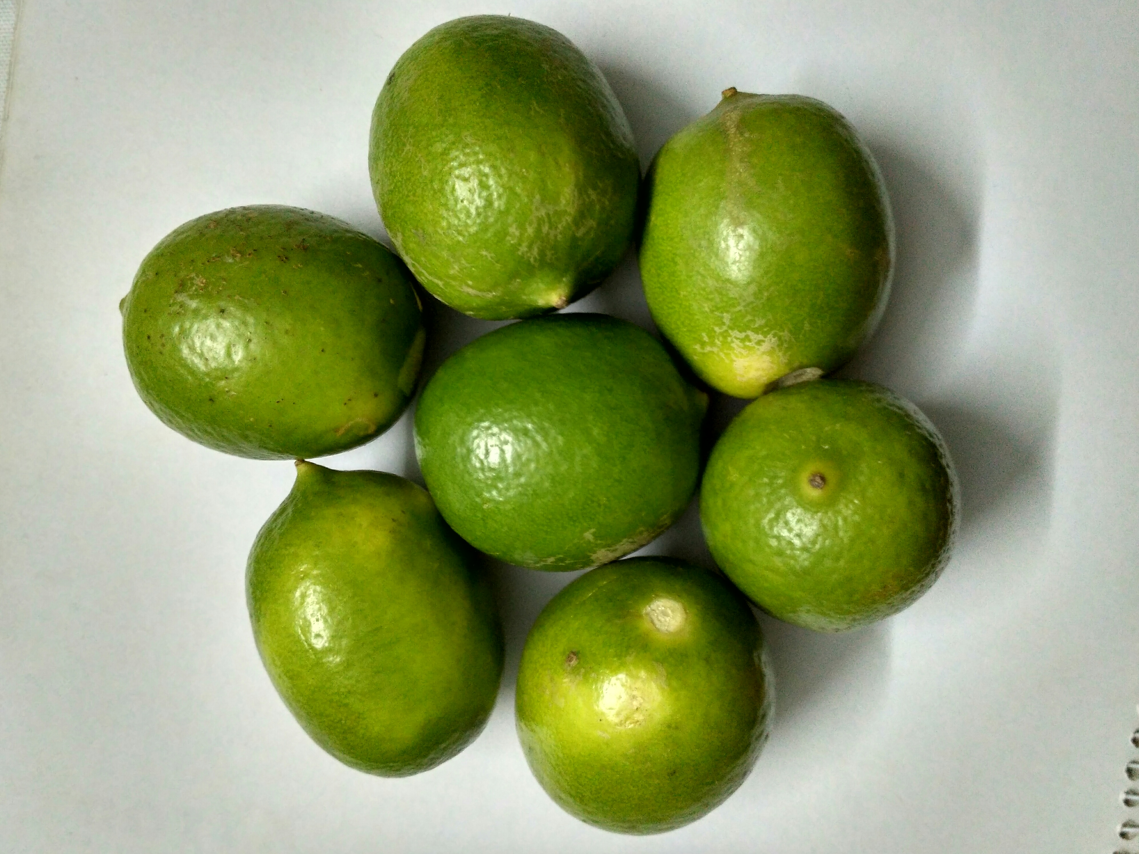 Some lemons. Dhaka, Bangladesh.